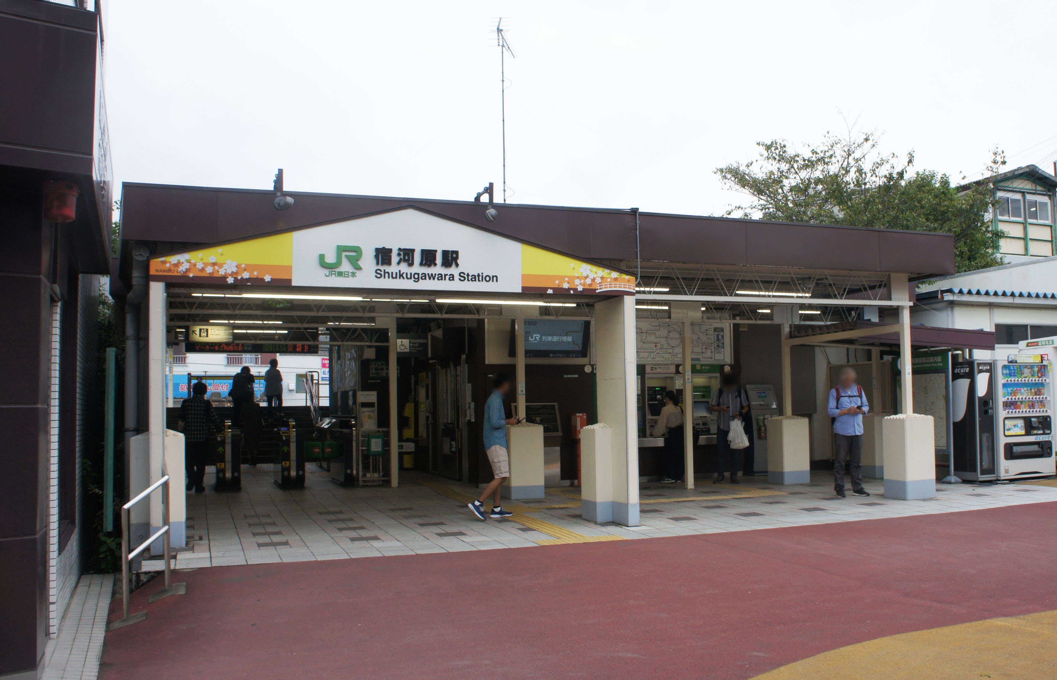 Station building of JR Nambu-Line Shukugawara Station